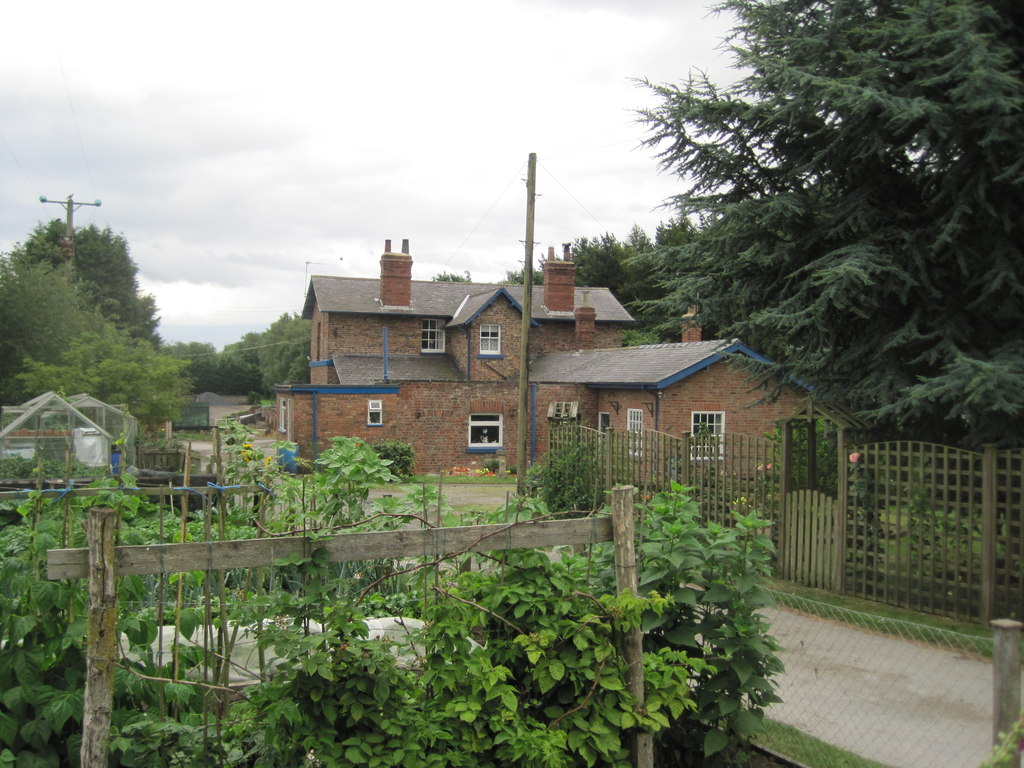 Holtby railway station (site), YorkshireOpened in 1847 by the North Eastern Railway on the line from Beverley to York, this station closed to passengers in 1939 and completely in 1951. Forecourt, from the approach drive.